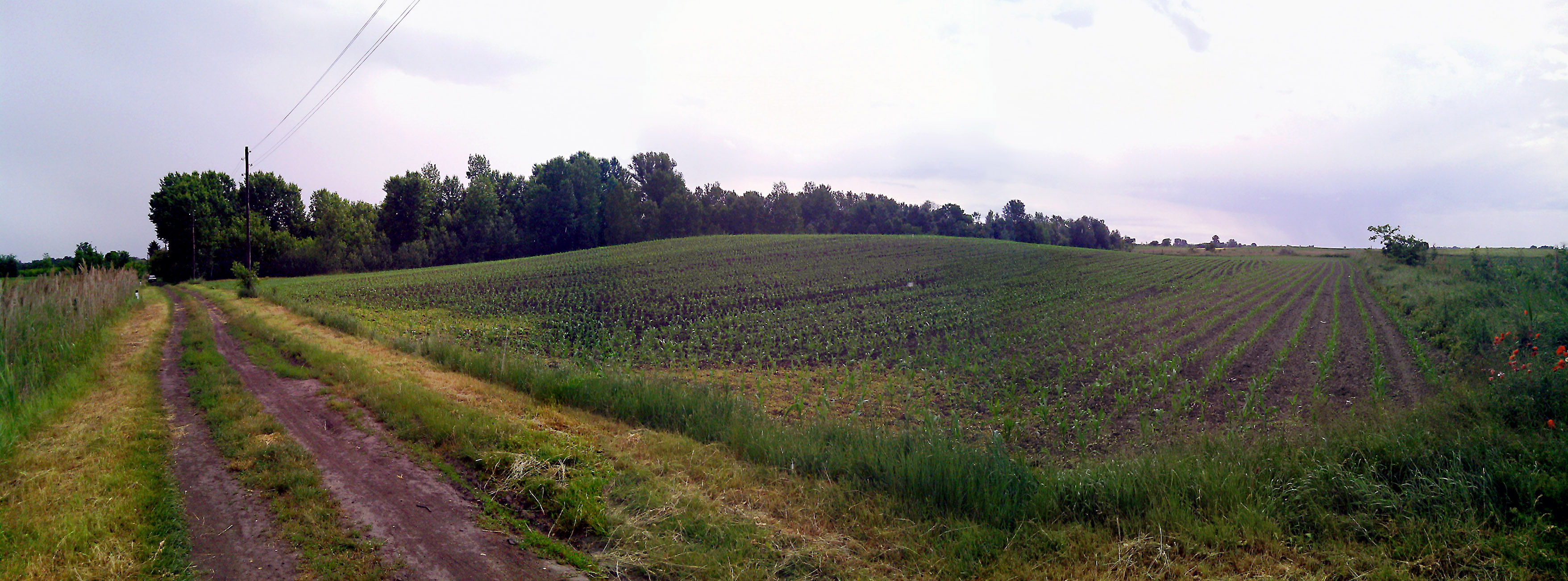 Kurgan in the vicinity of Subotica, Serbia